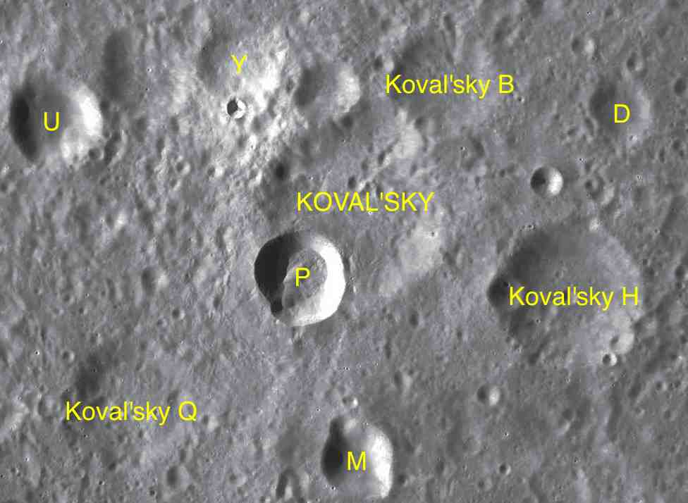 Part of the chart LAC-100 used for the presentation